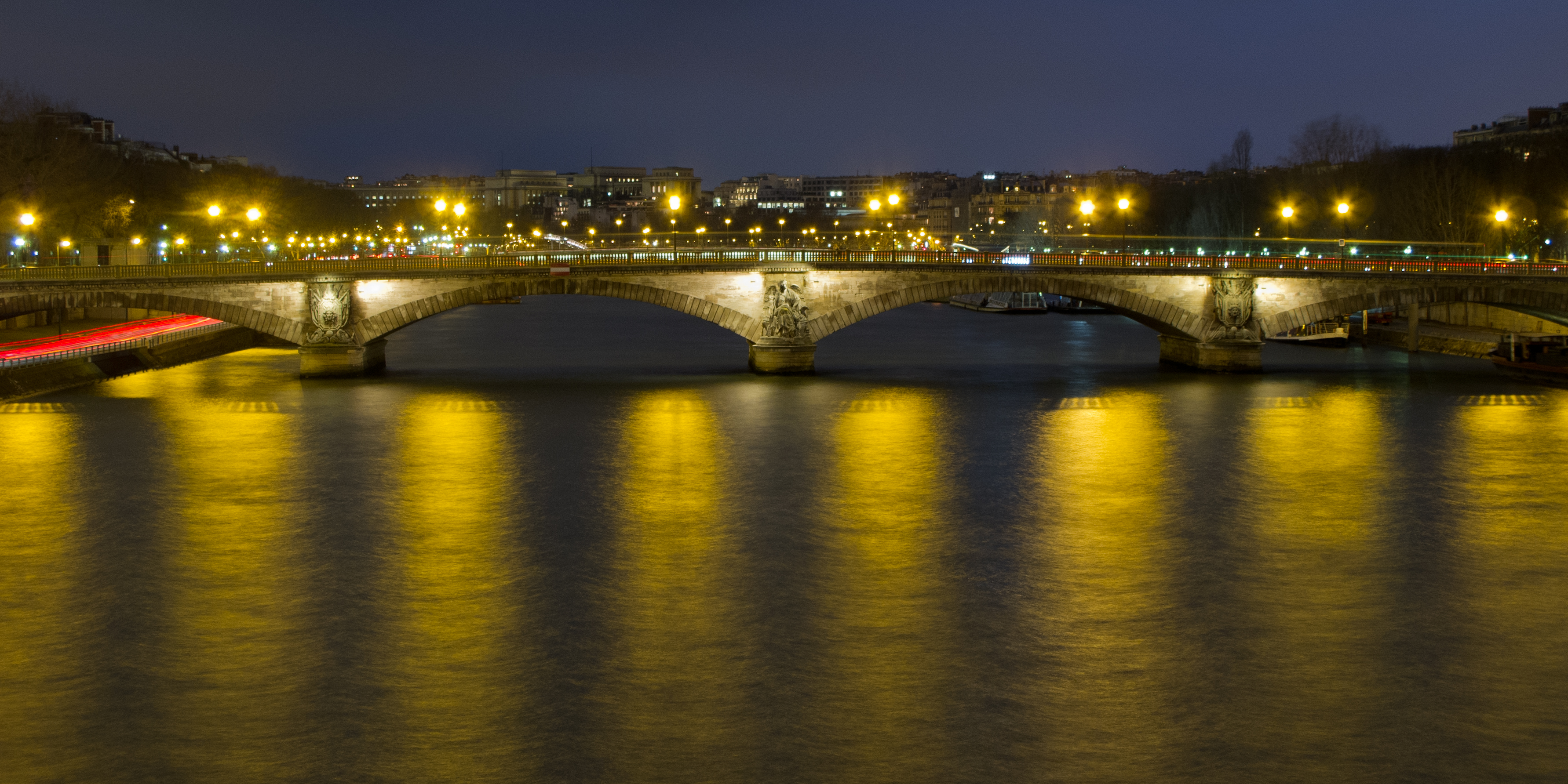 Night view of Pont des Invalides, Paris, France.